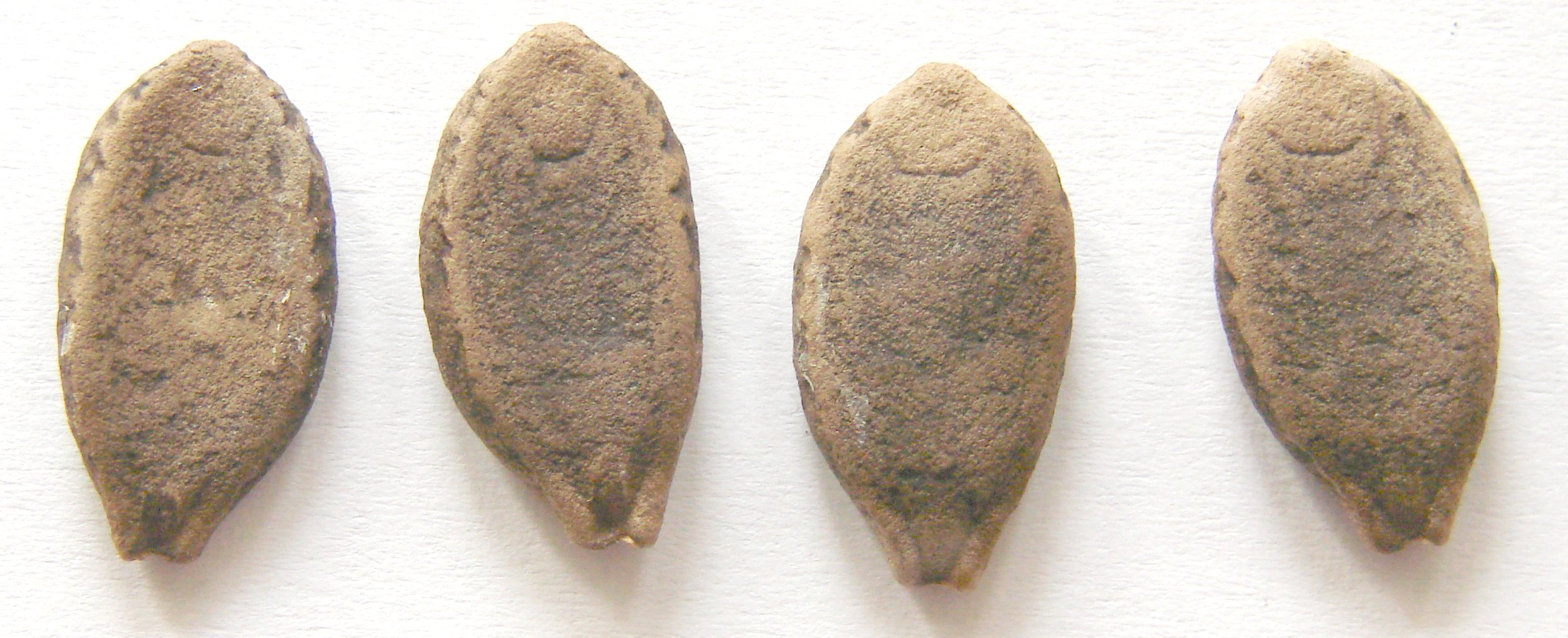 Echinocystis lobata